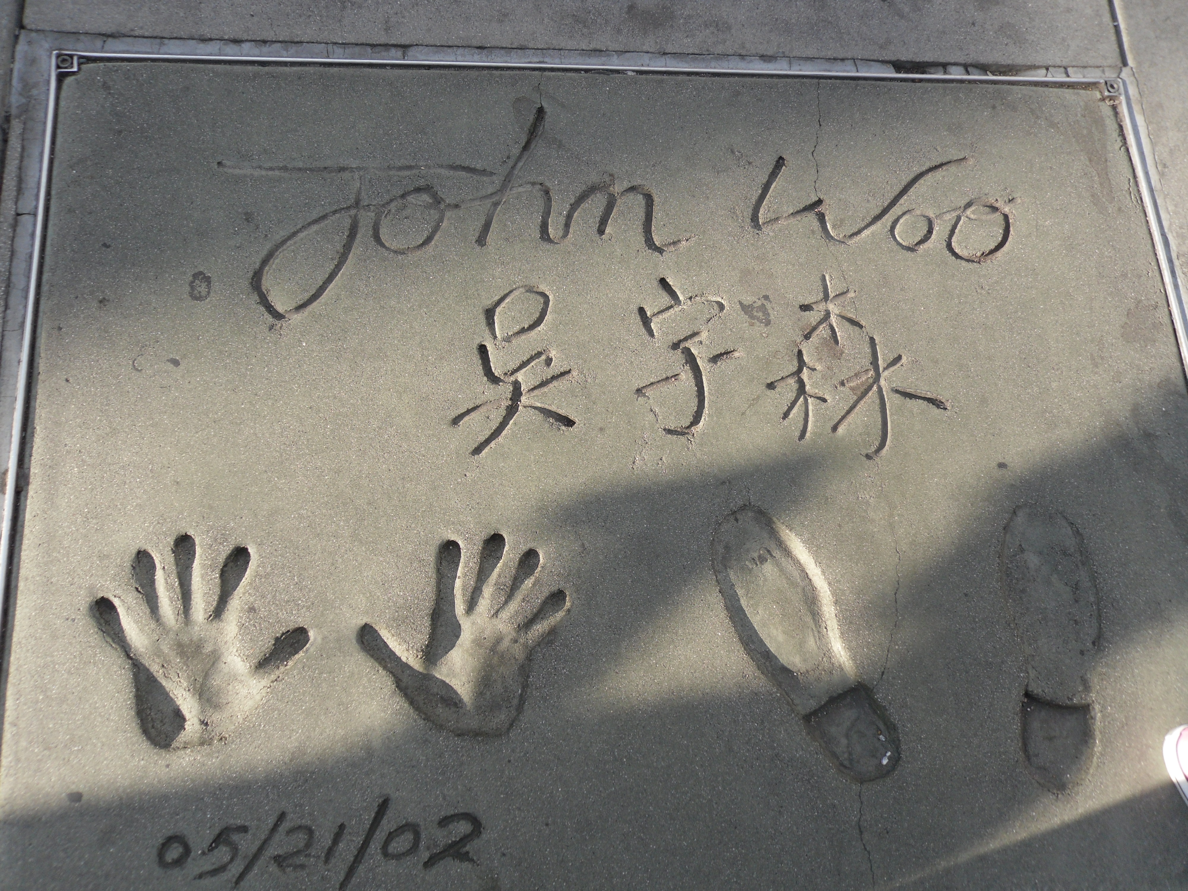 John Woo's signature at Grauman's Chinese Theatre